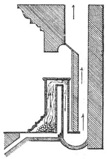 Cross-sectional diagram of a "stove" (i.e., fireplace) that was invented by Benjamin Franklin (1706-1790)